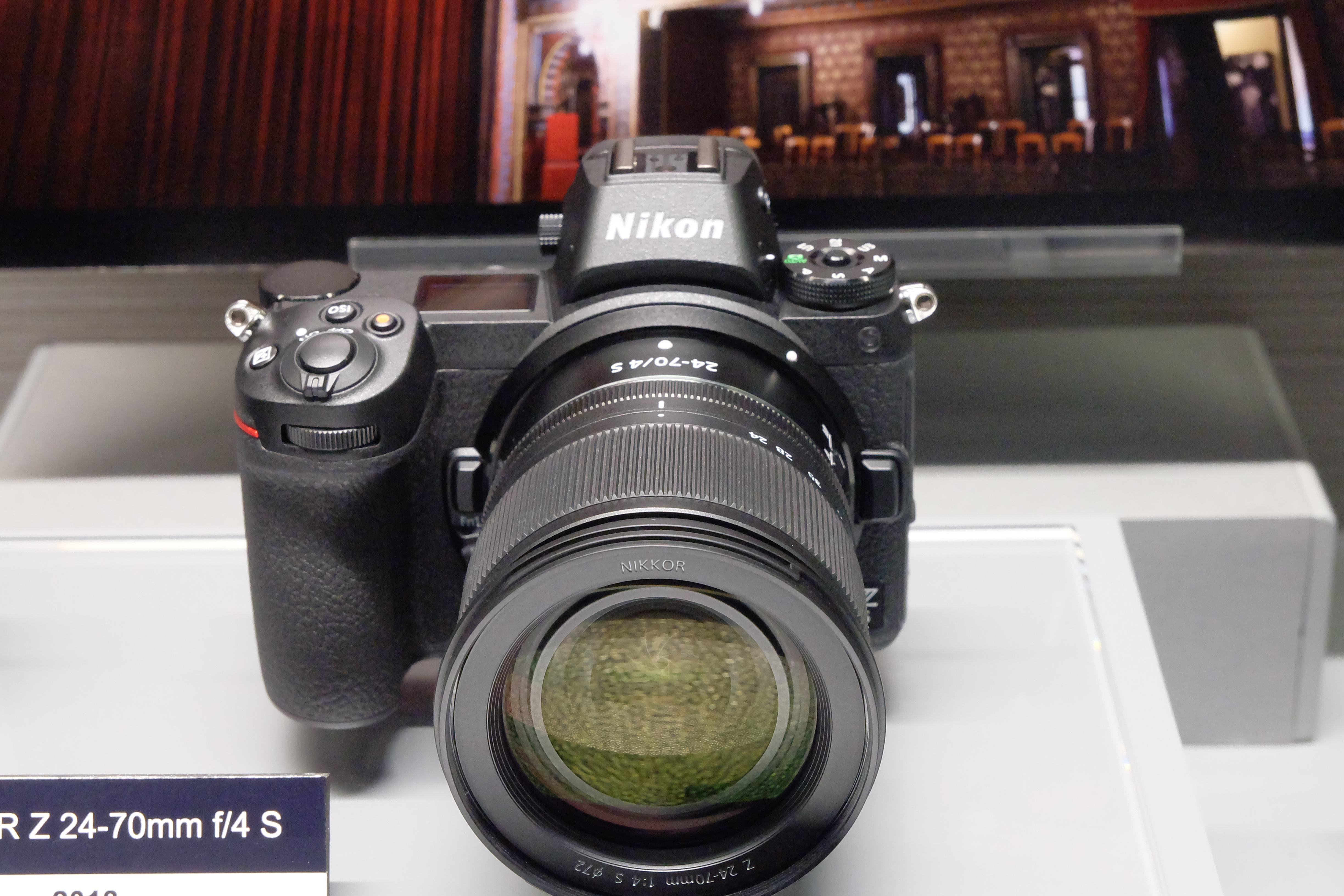 Nikon Z 6, photo taken at Nikon Museum